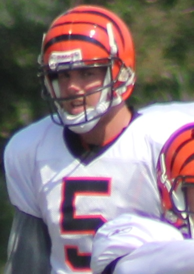 QB Carson Palmer and RB Cordera Eason (Rookie from Mississippi) at Cincinnati Bengals training camp in 2010. Carson Palmer's younger brother, backup QB Jordan Palmer (#5), is on the side lines.